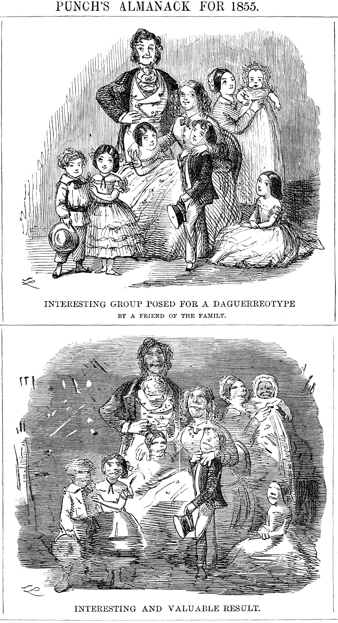 Two-panel cartoon on the vagaries of early photography, published in the Punch's Almanack for 1855. Caption to top panel: "Interesting group posed for a Daguerrotype by a friend of the family". Caption to bottom panel: "Interesting and valuable result" (the family photograph has actually turned out horribly).